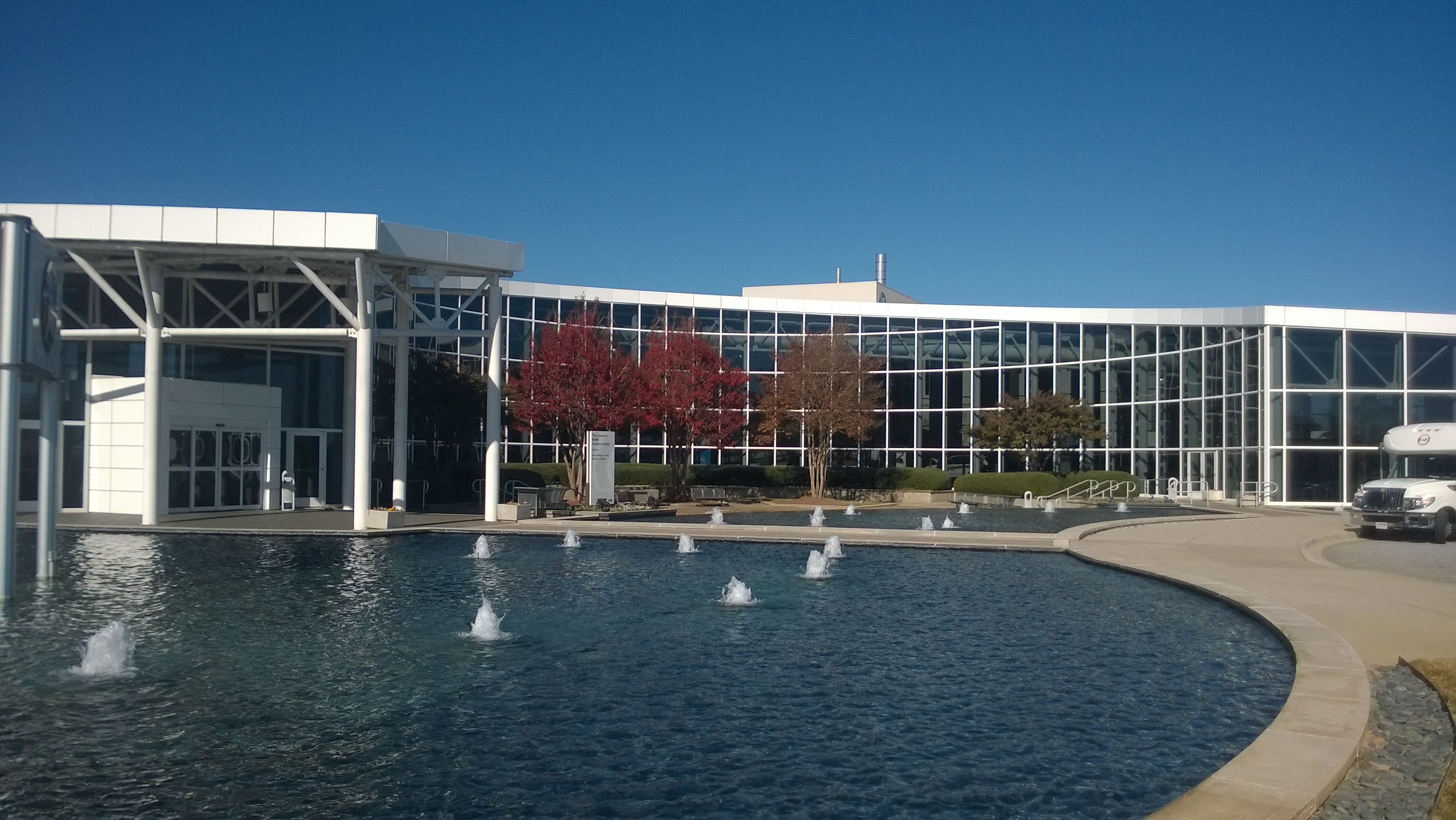 The BMW Zentrum (BMW Center) in Greer, South Carolina near Greenville.